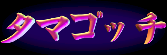 the word "tamagotchi" in Japanese Katakana script; landscape format for the German Wiktionary